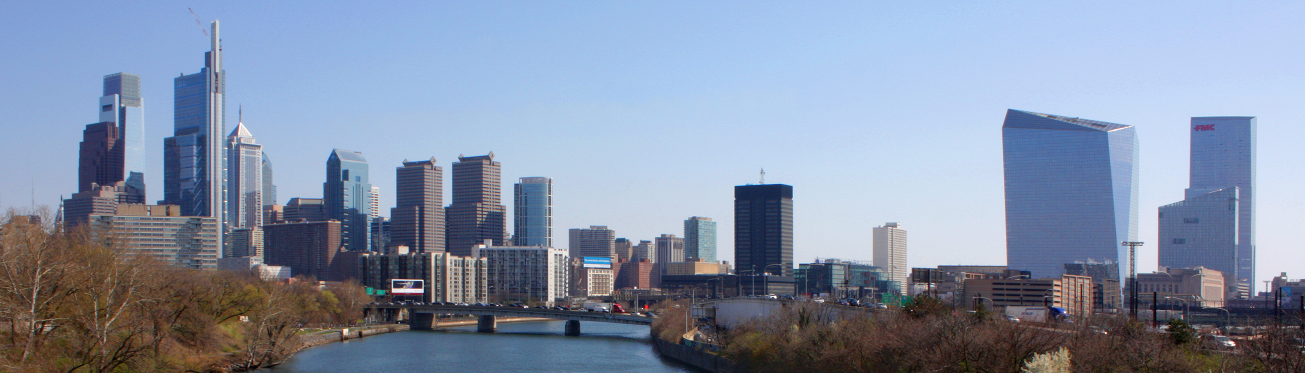 Philadelphia skyline from the Spring Garden Street Bridge